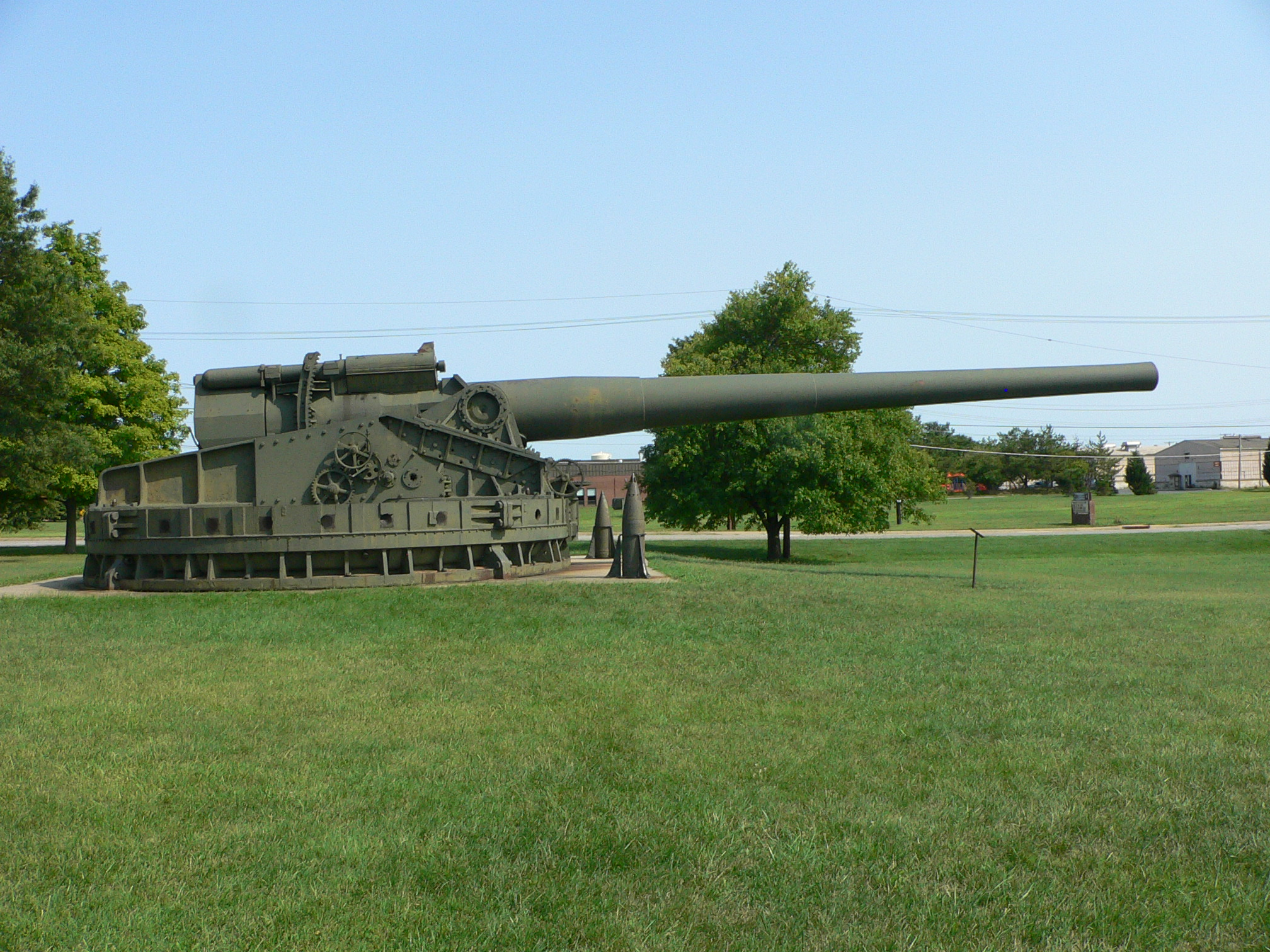 16-inch 50 caliber Mark 3 naval gun, deployed as coast defense gun, at the United States Army Ordnance Museum (Aberdeen Proving Ground, MD).